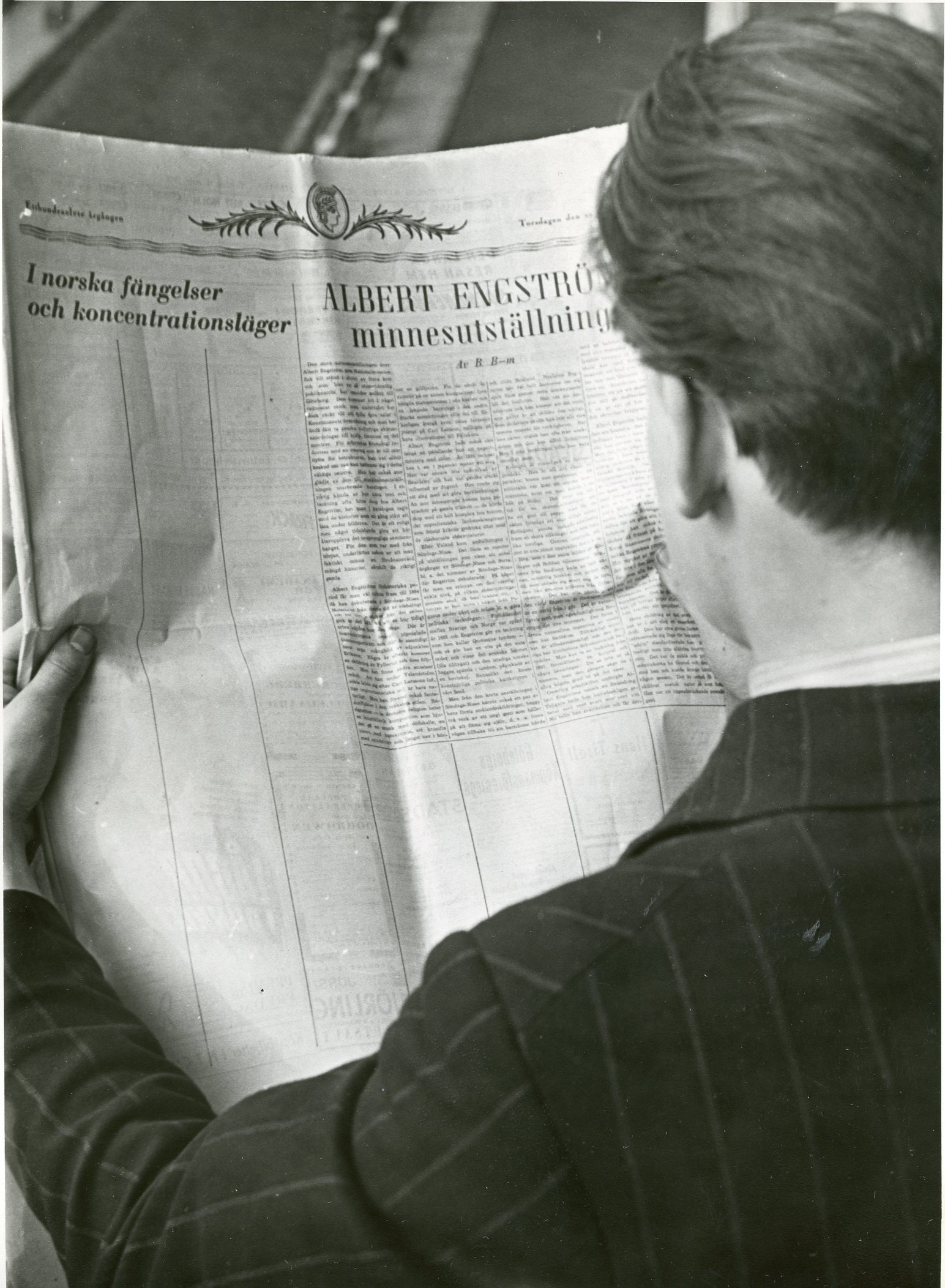 Illtreatment in Norwegian prisons. In the middle of March 1942 a lot of Swedish Newspapers were confiscated after having published articles of the cruel methods which Germans use against Norwegian prisoners. The confiscation aroused great sensation, and the press reacted very strongly. The Swedish newspaper, “Göteborg Handel -og Sjøfarts Tidning” printed afterwards the title” In Norwegian prisons and consentration camps” without any captions below, only empty colums, and demonstrated in this way to its readers that it had not got the opportunity to print the truth of the Germans`behavior in Norway. RA/PA-1209/Uc/66/7/L 3777